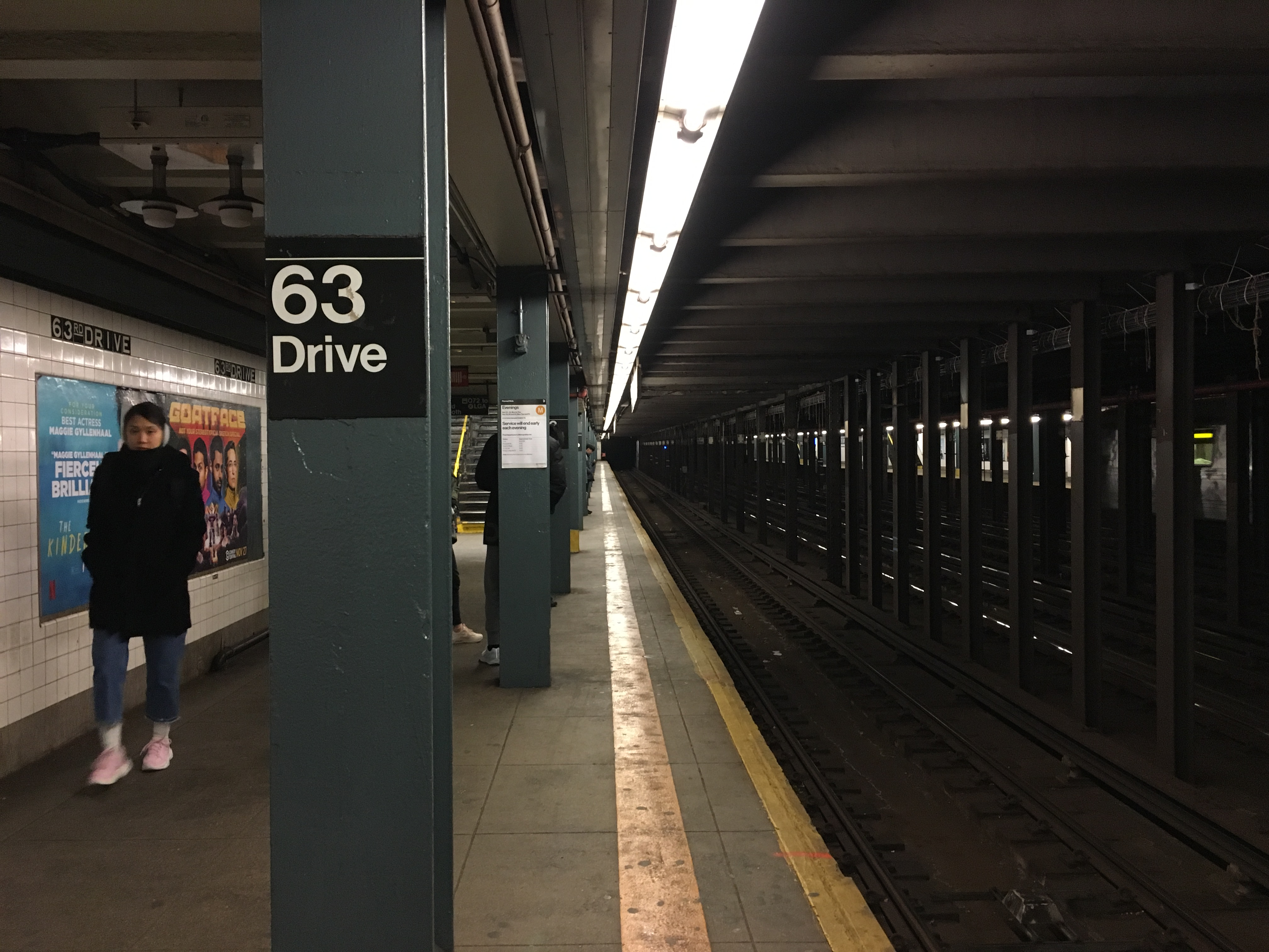 Looking down the Manhattan-bound platform of 63rd Drive-Rego Park